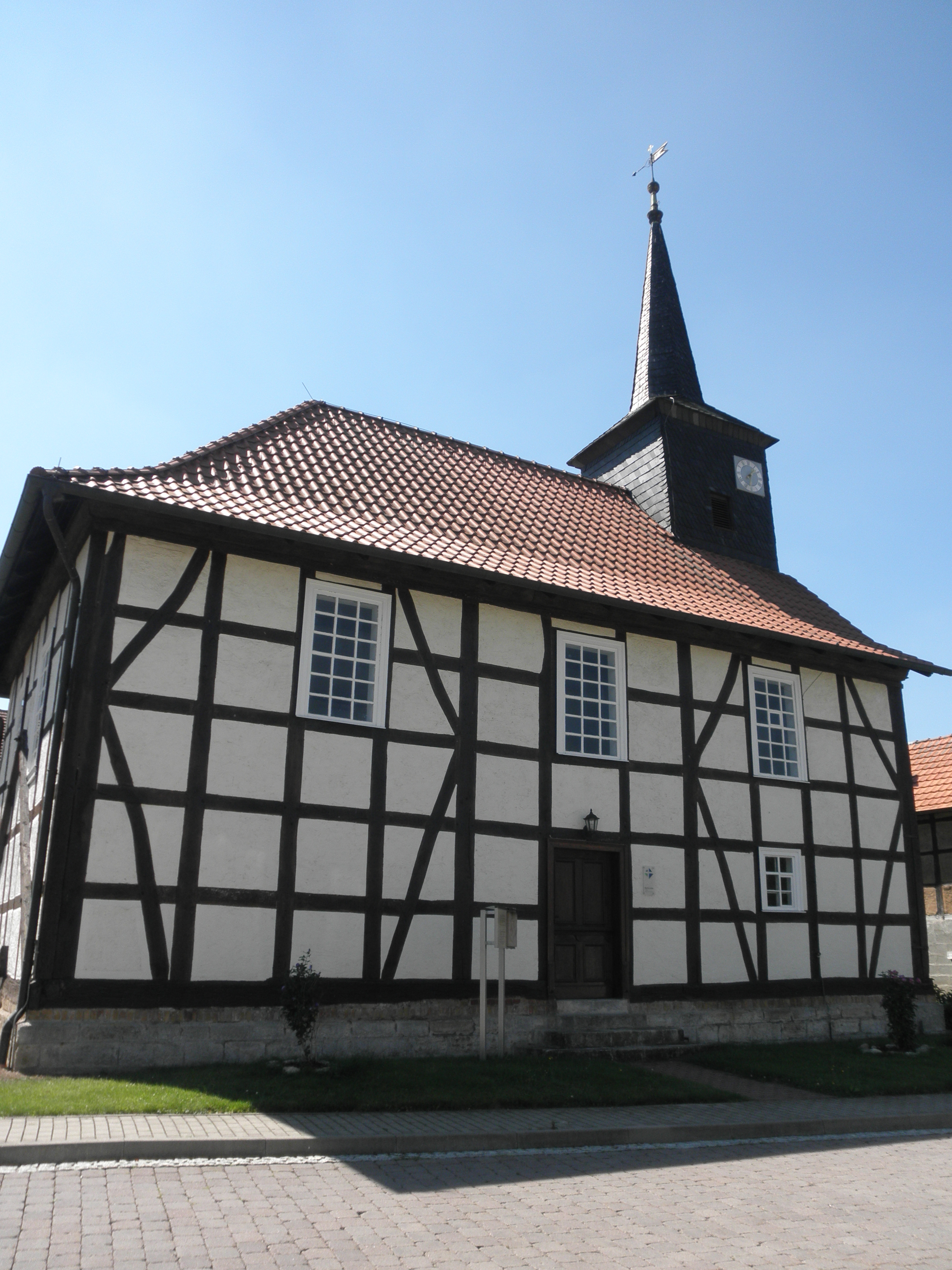 Church in Hohenbergen (Schlotheim) in Thuringia